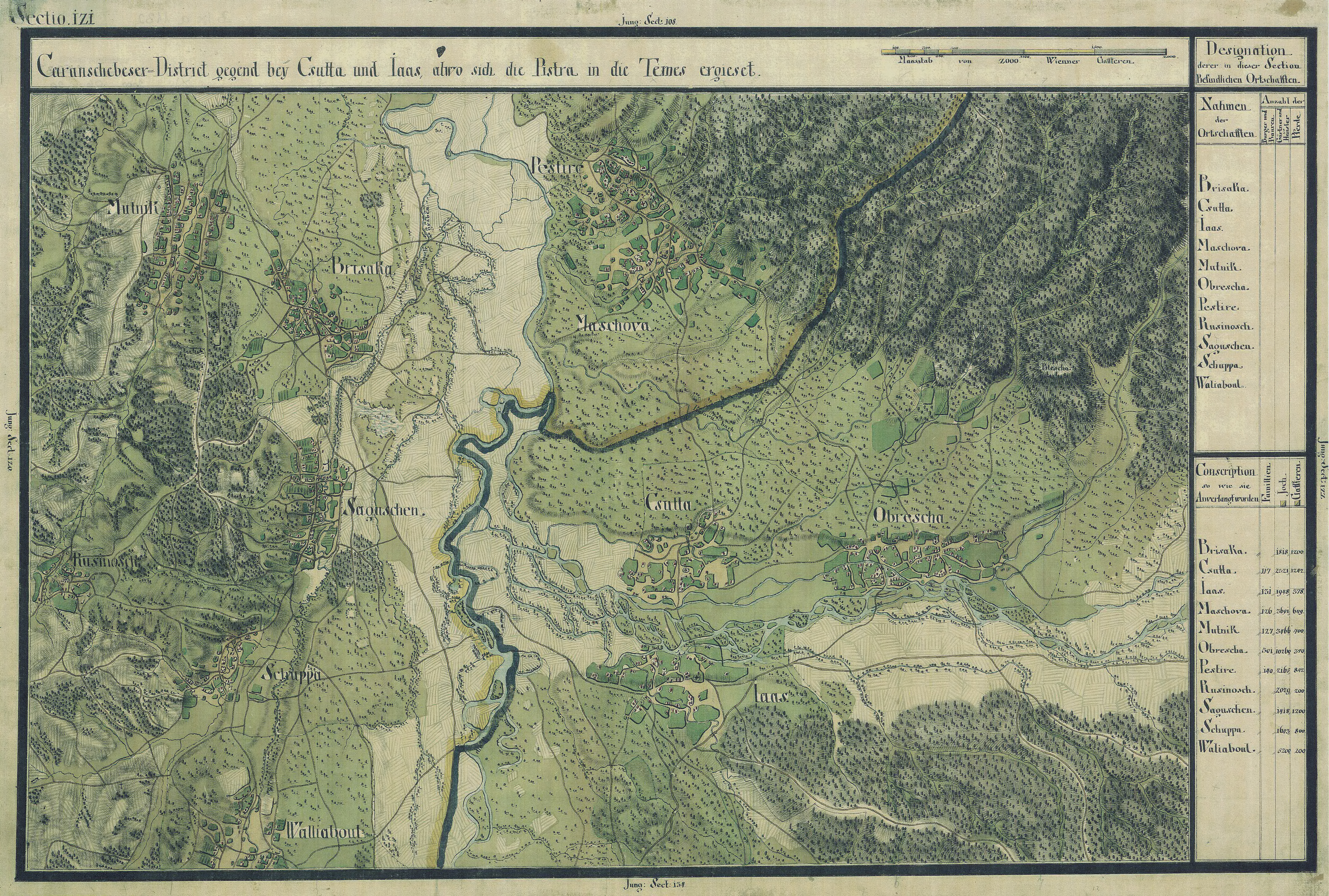 The Banat region in the cadastral maps: Josephinische Landesaufnahme, 1769-72. Josephinische Landaufnahme pg121